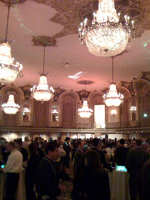 Ballroom, Hilton Chicago